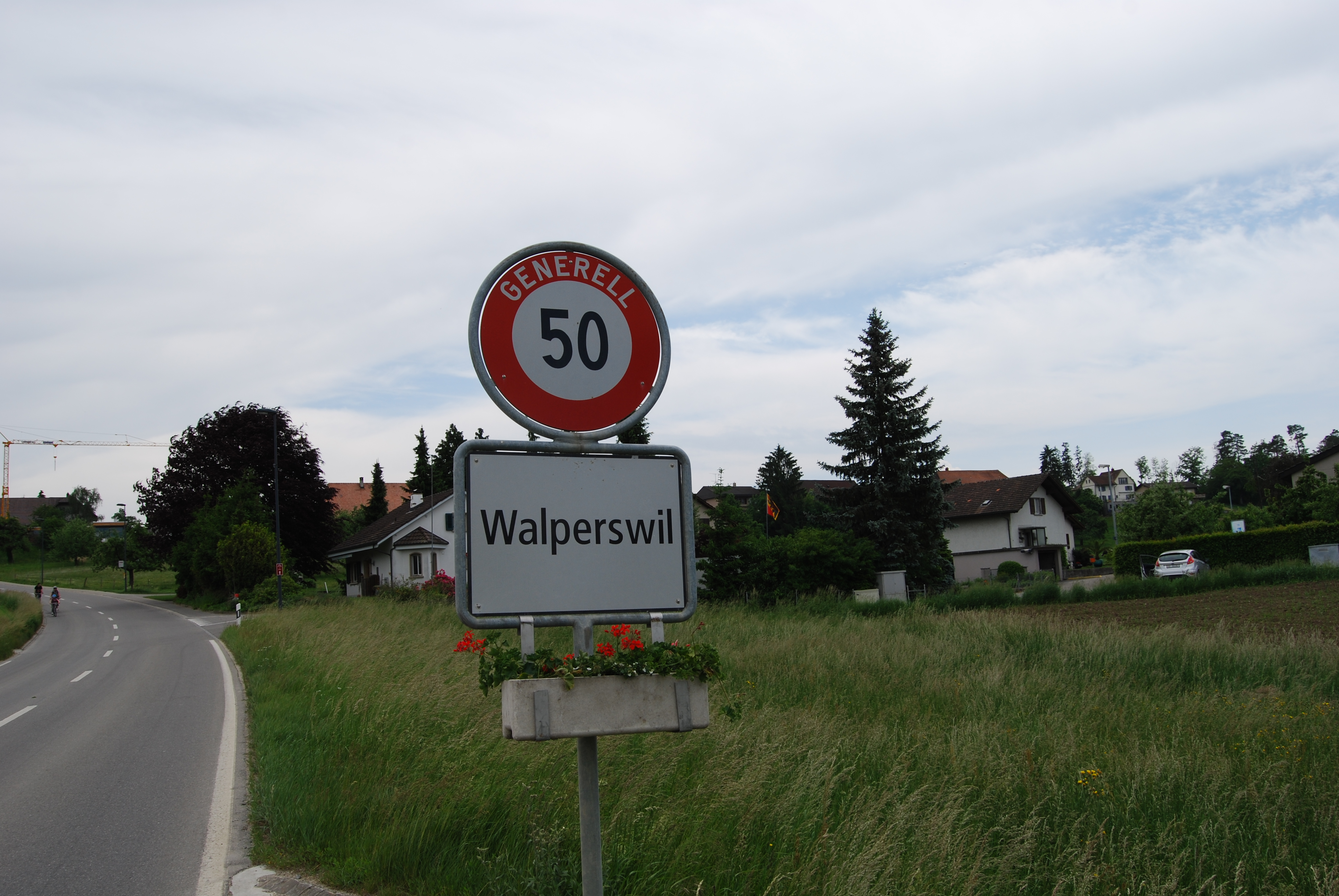 Walperswil, canton of Bern, SwitzerlandEsperanto: Walperswil, Kantono Berno, Svislando